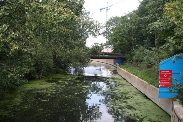 Old River Lea Looking north east from its junction with the Navigation just below Old Ford Locks, it is clear that there is a towpath along the Old Lea here, which has been closed due to Olympics construction. (Blue boards).